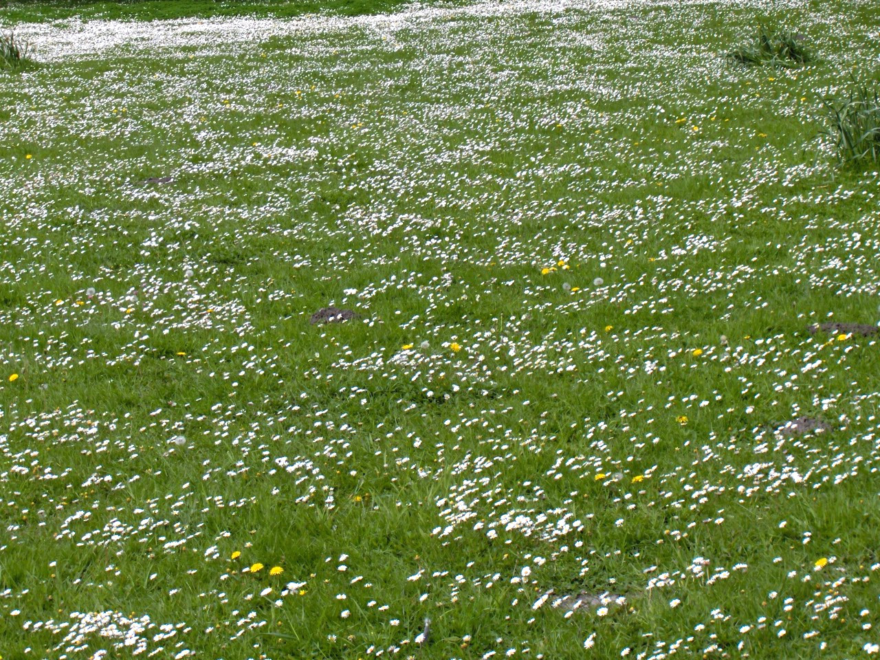 Meadow with daisies (Bellis perennis, family Asteraceae)